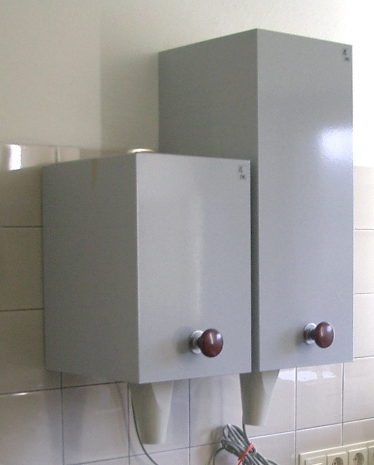 Silos for model plasters